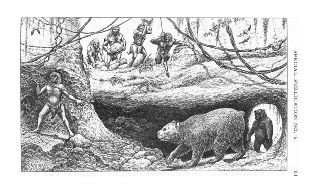 Artist's conception of Pleistocene Vero man and cave bear Arctodus. In Fossil Mammals of Florida by Stanley J. Olsen, Florida Geological Survey Special Publication No. 6.